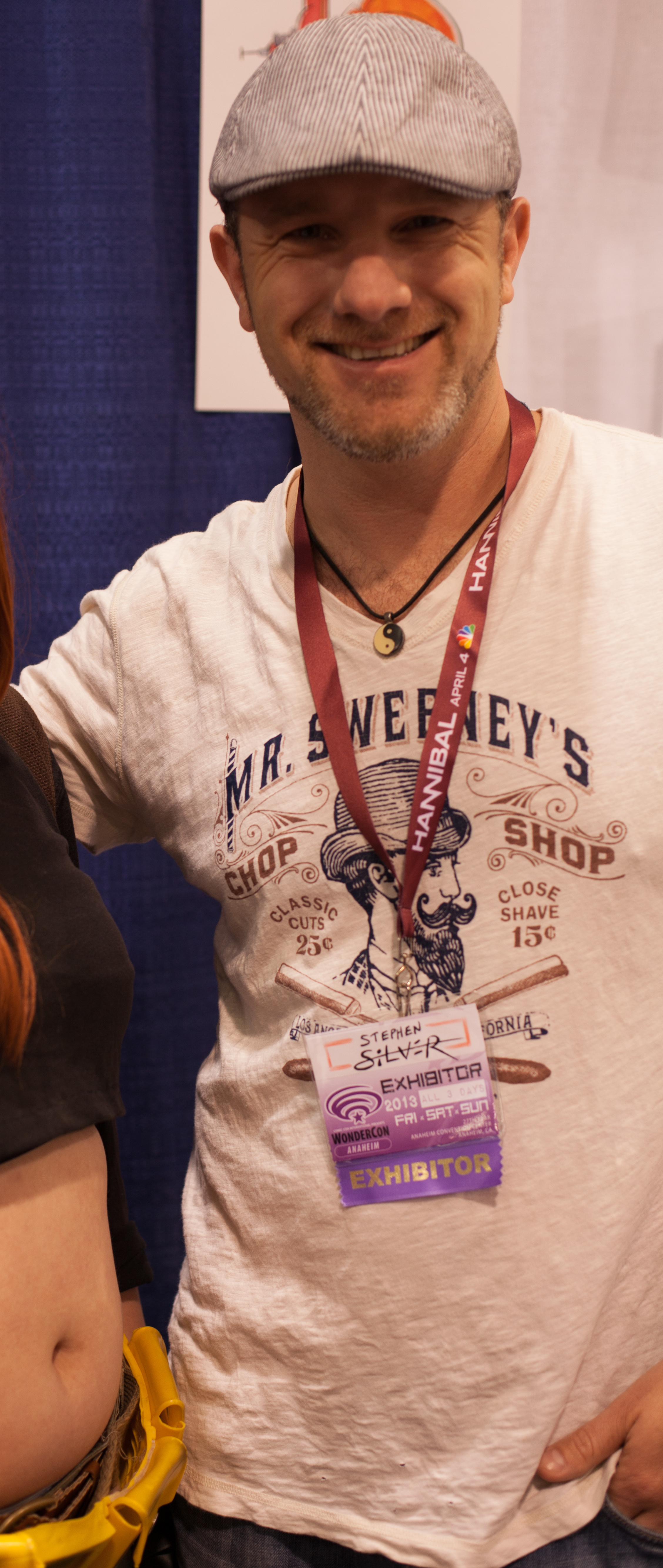 Wondercon 2013-3813